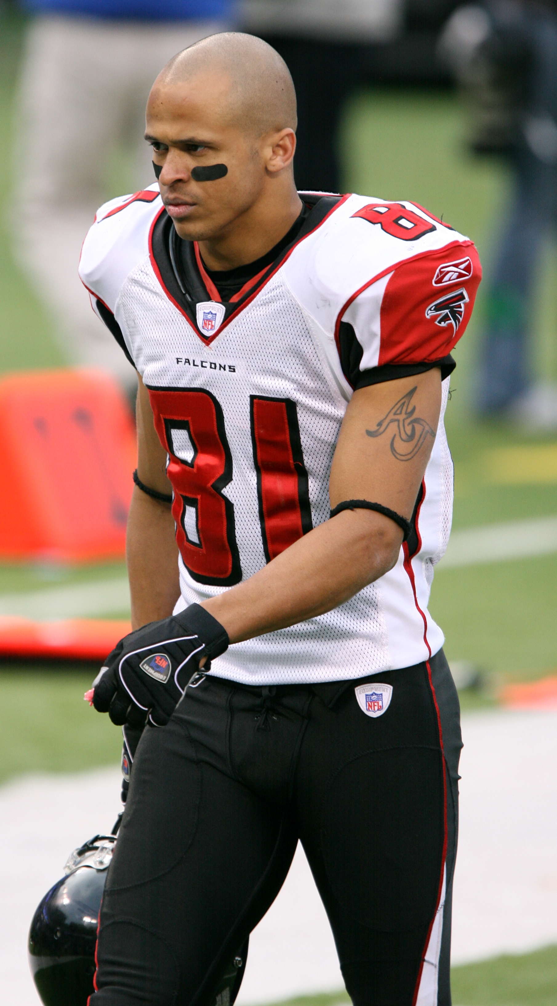 Adam Jennings, American football wide receiver for the Atlanta Falcons (at time of photo)